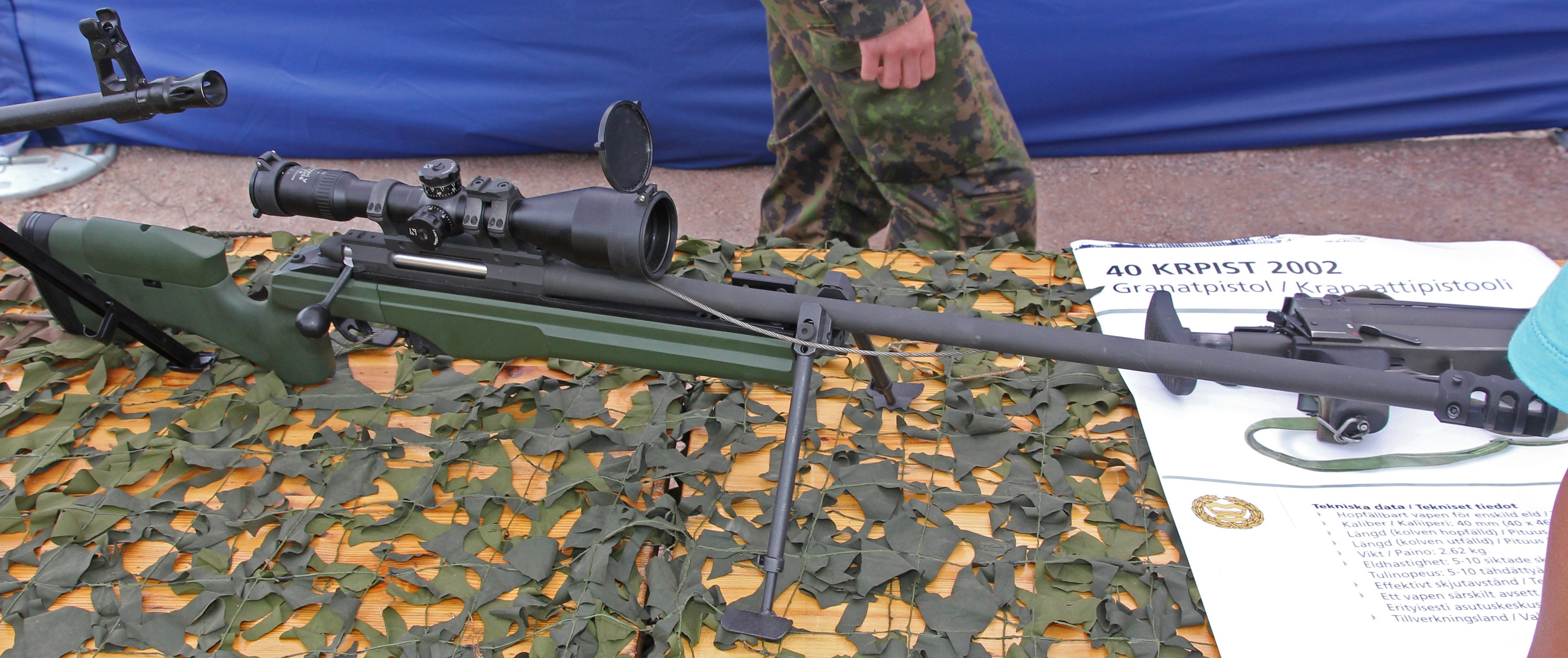 8.6 TKIV 2000 (Sako TRG-42) sniper rifle used by the Finnish Defence Forces (FDF) on display during the Finnish Navy 2012 anniversary. The Finnish Defence Forces (FDF) 8.6 TKIV 2000 rifles have custom made Zeiss 3-12x56 Diavari VM/V T* 30 mm telescopic sights with eye safe laser filters mounted. These sights are equipped with first focal plane "FinDot" reticles (a regular mil-dot reticle with the addition of 400 m – 1200 m holdover (stadiametric) rangefinding brackets for 1 meter high or 0.5 meter wide targets at 400, 600, 800, 1000 and 1200 m). Reticle illumination is provided by a tritium ampoule embedded in the elevation turret. The reticle elevation has 0.25 mil (0.25 mrad) adjustment intervals (total elevation range = 18.6 mils), while the windage has 0.1 mil adjustment intervals. The FDF thinks 0.25 mil elevation intervals are easier and quicker to use with Arctic mittens and that the difference between 0.1 and 0.25 mil adjustment intervals is negligible for anti-personnel sniping (0.1 mil at 1400 m = 14 cm (0.3437747 MOA), 0.25 mil at 1400 m = 35 cm (0.8594367 MOA)). The elevation turrets have 100 m – 1400 m Bullet Drop Compensation (BDC) knobs calibrated for the Lapua Lock Base B408 cartridges the FDF issues its 8.6 TKIV 2000 marksmen. FDF snipers are trained to compensate BDC induced errors that inevitably occur when the environmental and meteorological circumstances deviate from the circumstances the BDC was calibrated for. All vital screw slots on the telescopic sight are designed to be operated with the rim of .338 Lapua Magnum cartridges instead of screwdrivers